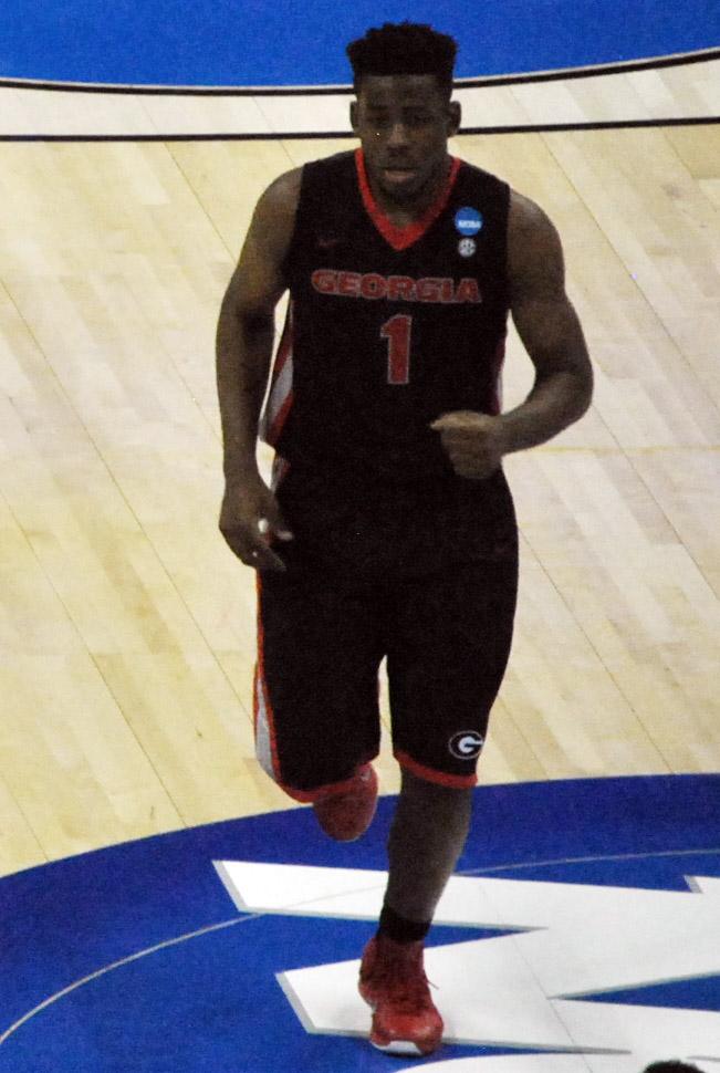 J. J. Frazier handles the ball for the Georgia Bulldogs.